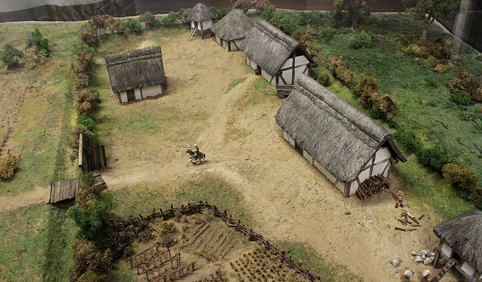 Model of the farm of Verberie (Gallic aristocracy). Cité des Sciences et de l'Industrie (Paris), "Les Gaulois, une expo renversante", from 19-10-2011 to 02-09-2012.